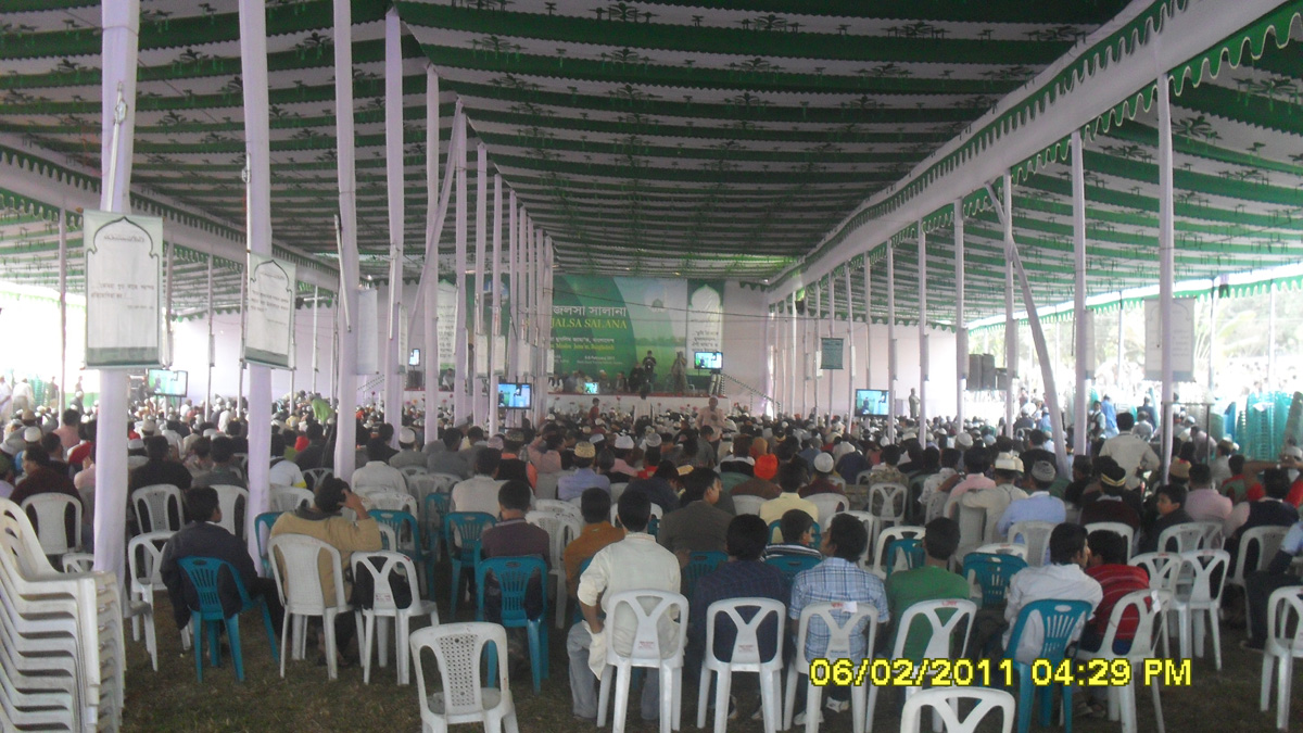 87th Annual convention of Ahmadiyya Muslim Jamaat Bangladesh on 2011